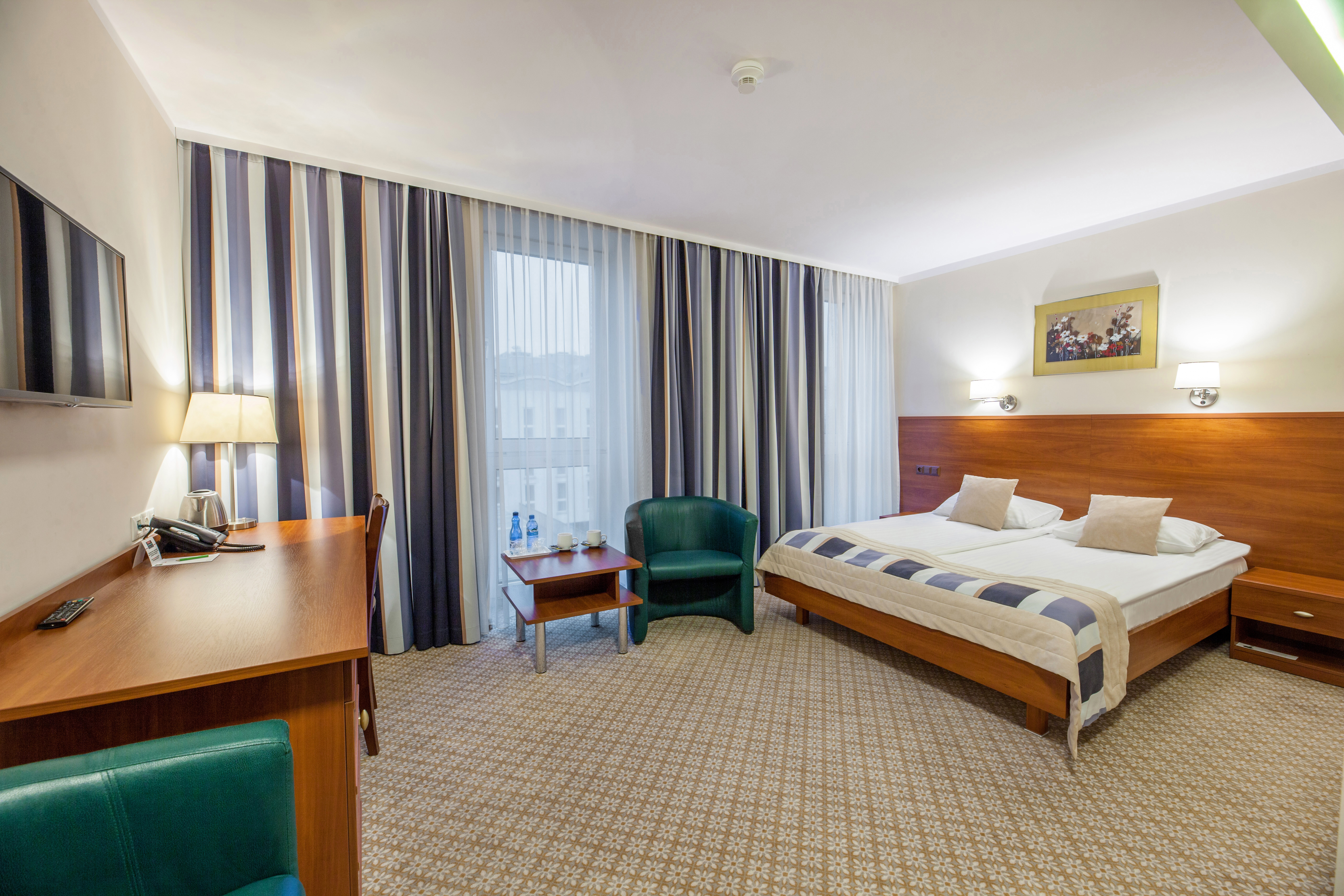 Hotel Gromada